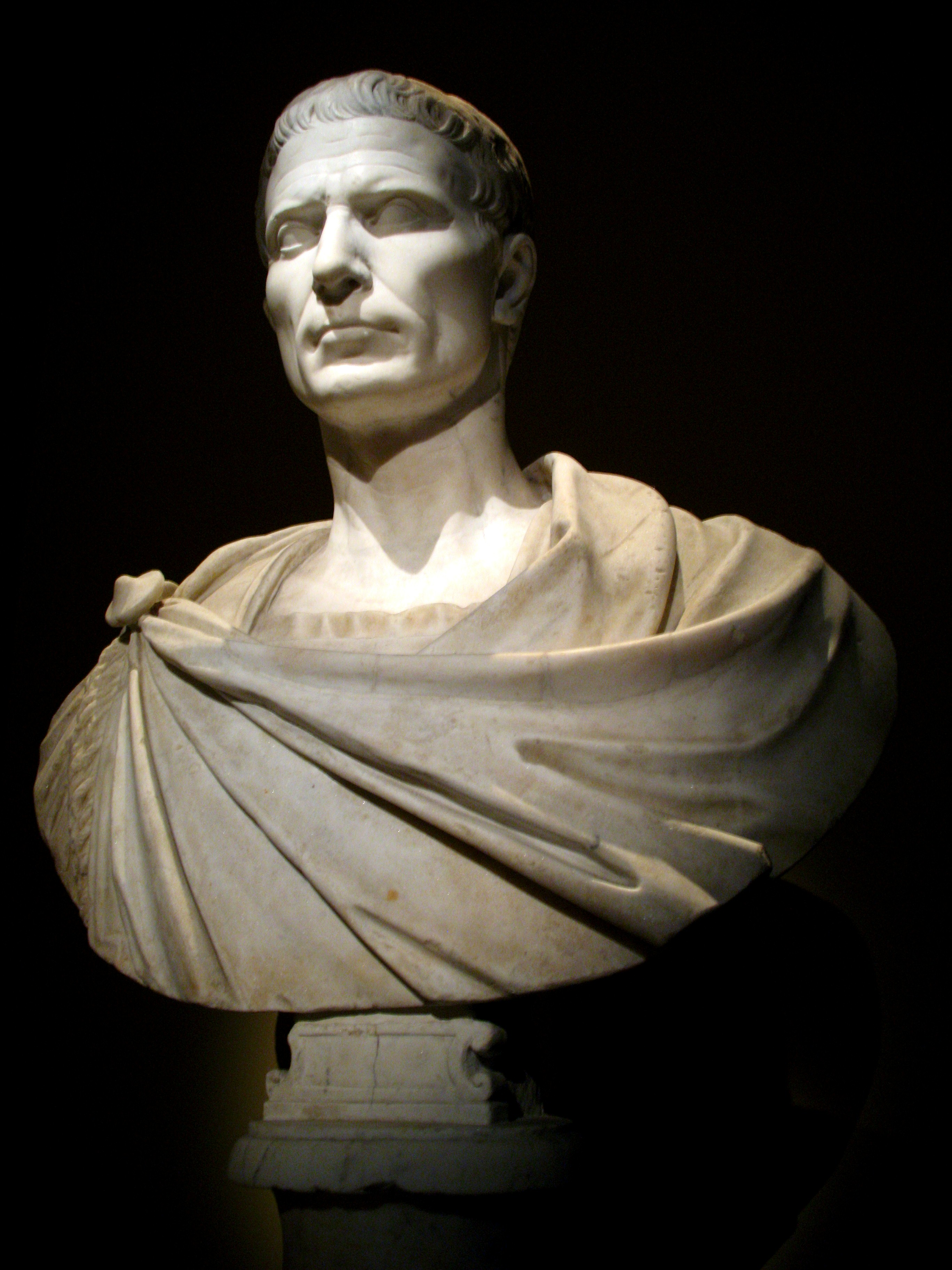 Gaius Julius Caesar, Art History Museum, Vienna, Austria This is a retouched picture, which means that it has been digitally altered from its original version. Modifications: Increased contrast and saturation.